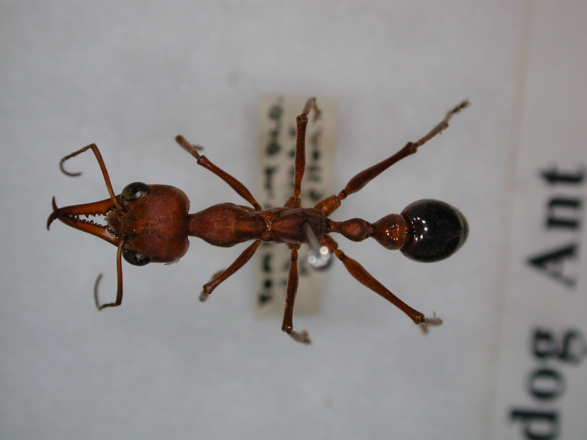 Bulldog Ant, Myrmecia brevinoda, University Collection, Brisbane, Australia